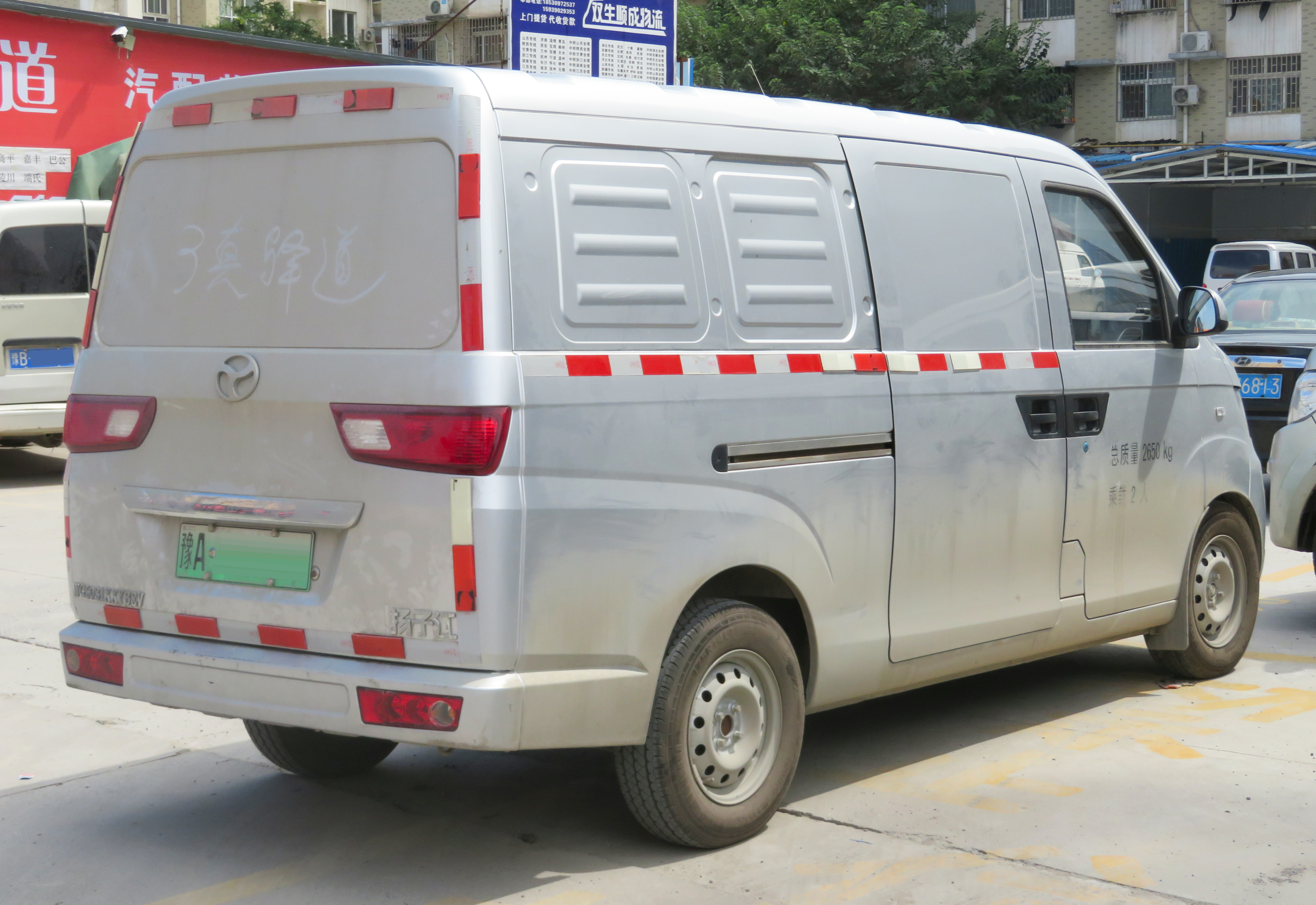 Photographed in Zhengzhou, Henan province, China